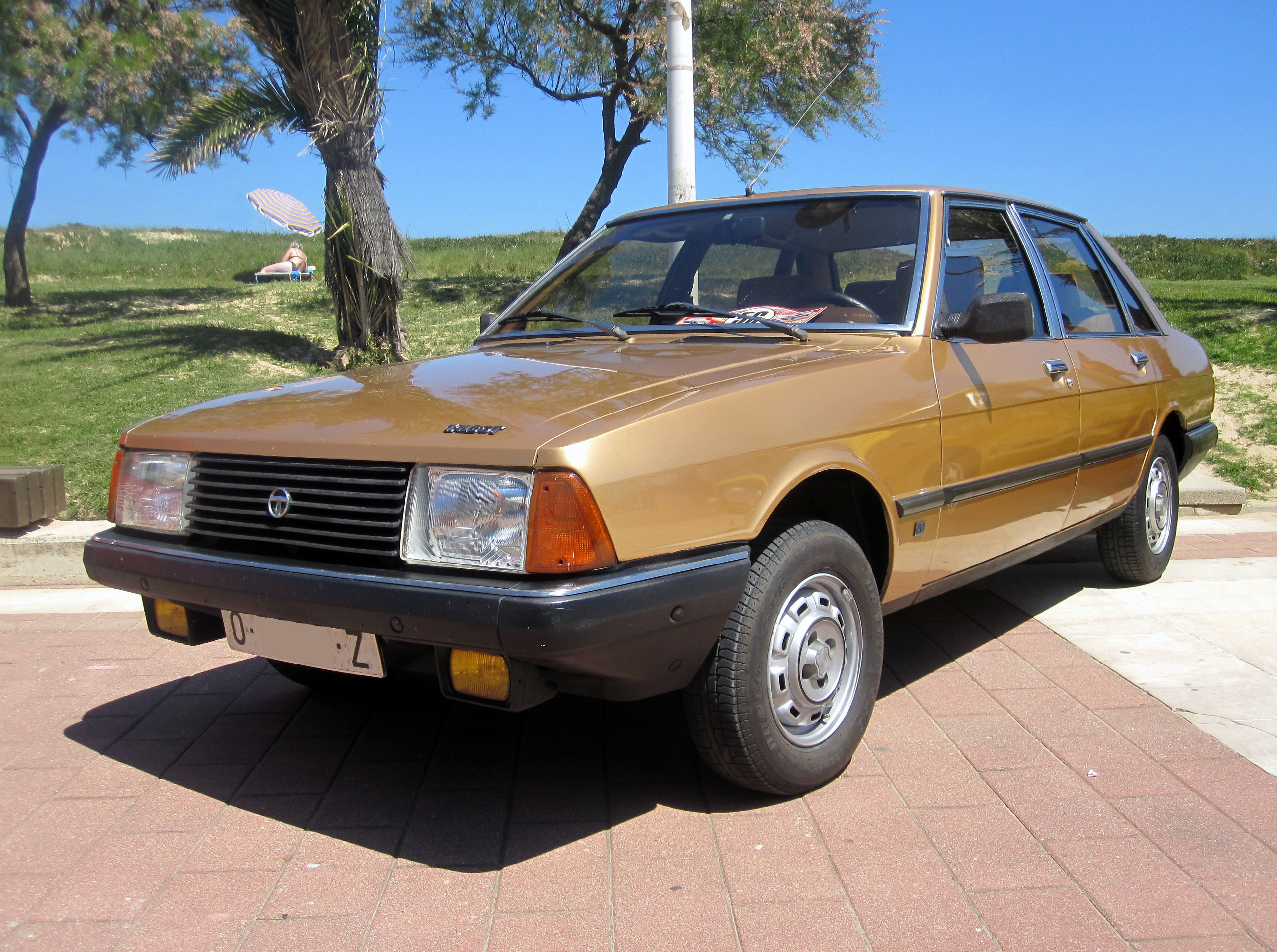 I did like this one. So nice and well cared for! Spotless. 1983 plates from Oviedo (Asturias) but seen in Suances (Cantabria).